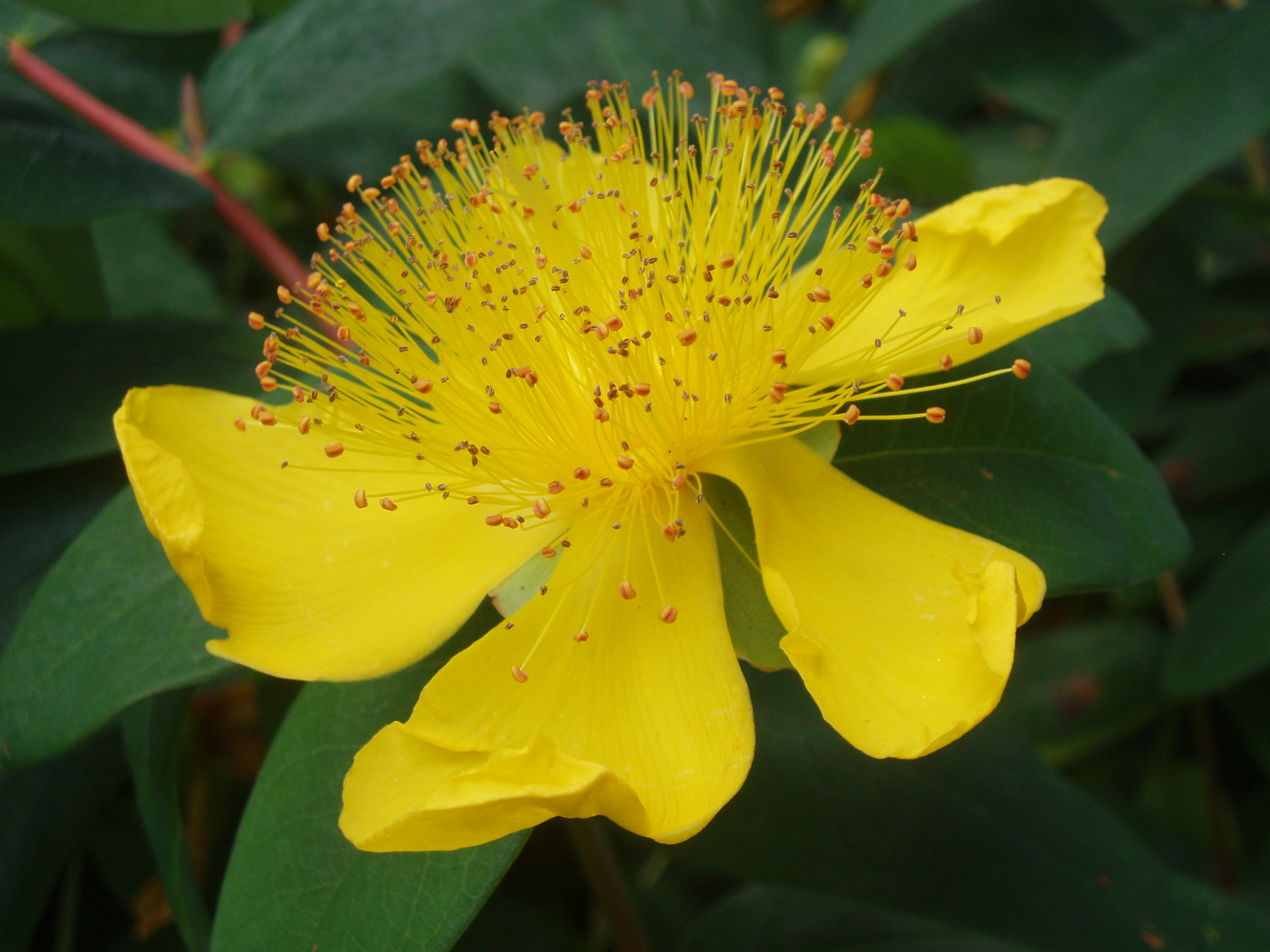 hypericum calycinum. Royal Botanical Garden. Madrid (Spain)